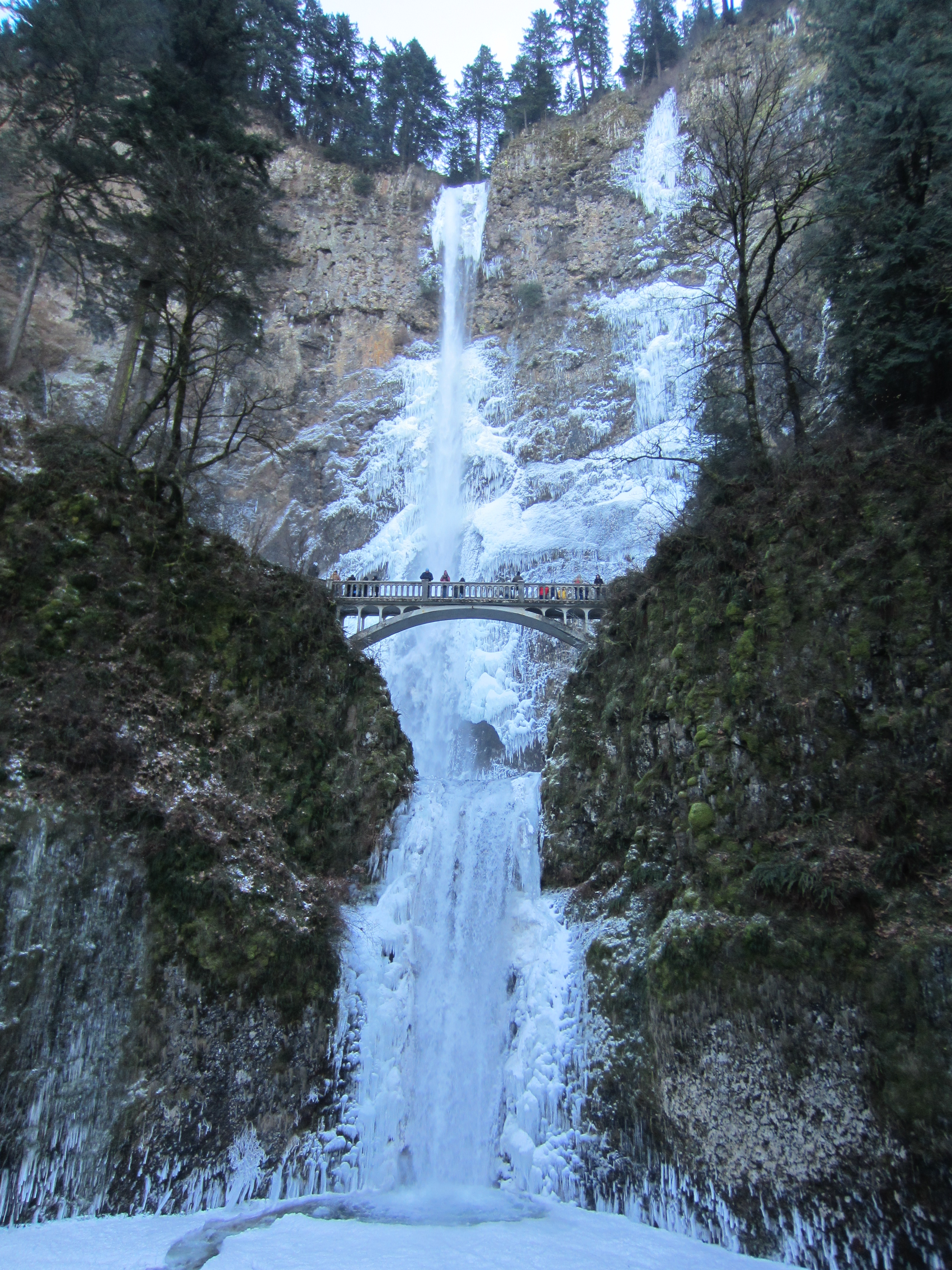 Multnomah Falls, Oregon in December 2013